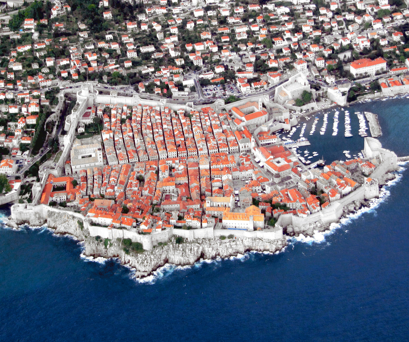 Dubrovnik as seen from an aeroplane.